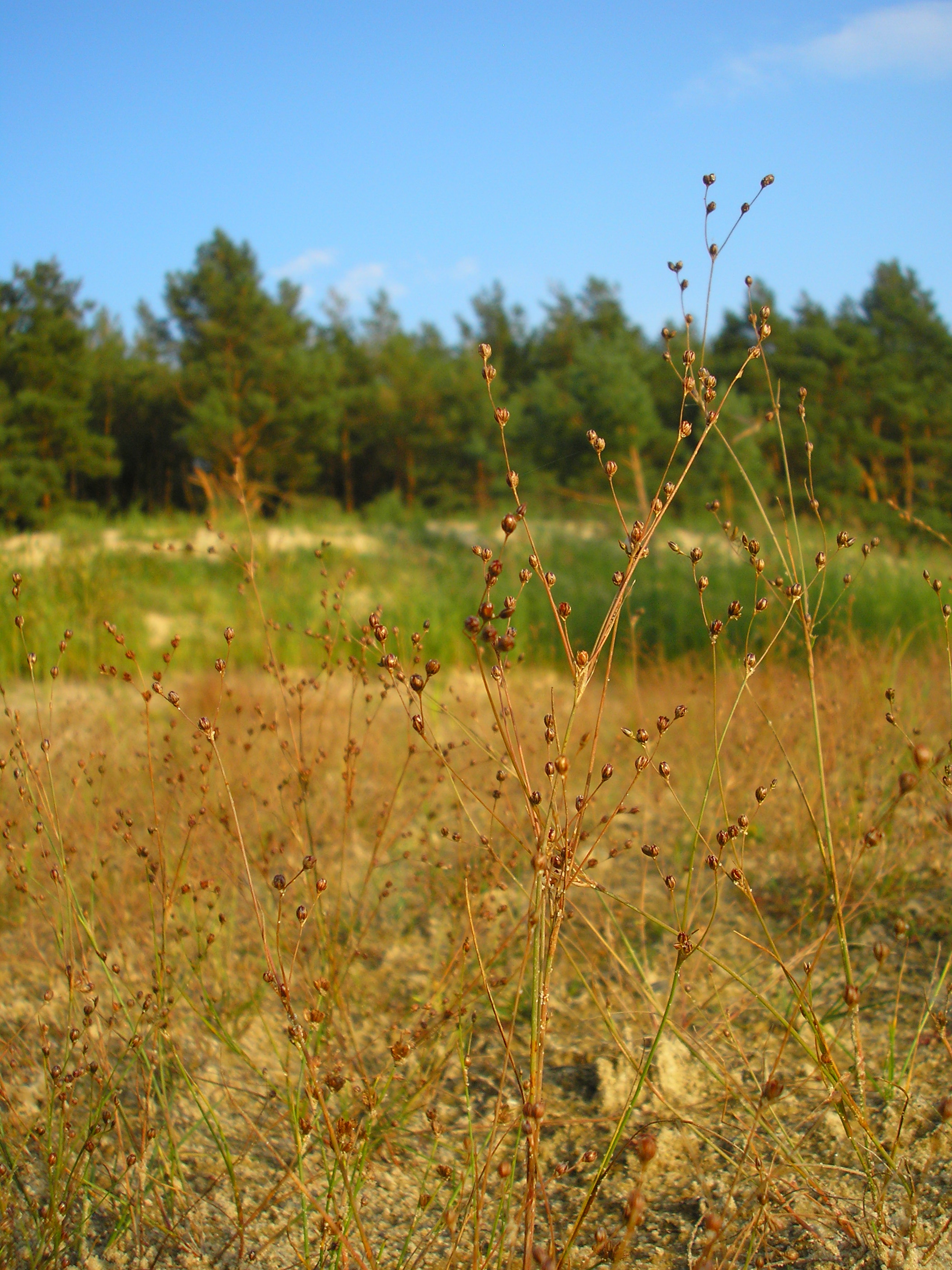 Juncus tenageia